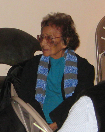 Anna Marie Haozous (Navajo-Mestiza), wife of the late Allan Houser, mother of Chiricahua Apache sculptors Phillip and Bob Haozous